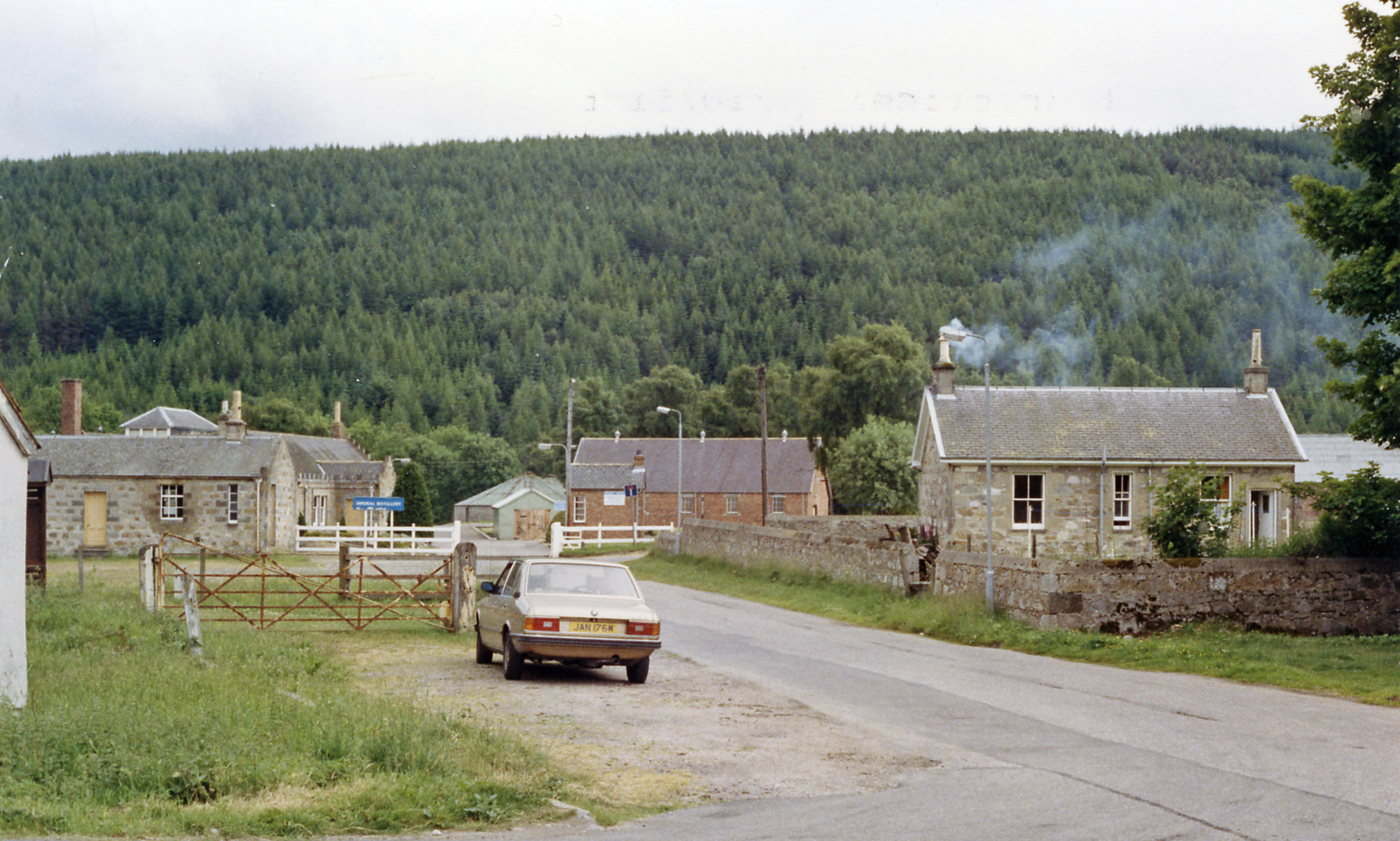 Carron station (remains), 1988. View southward, across the course of the ex-GNSR Craigellachie - Boat of Garten line. Carron station and the line were closed to passengers from 18/10/65 (to goods from 4/11/68), but the station in 1988 seems to have been well preserved privately.